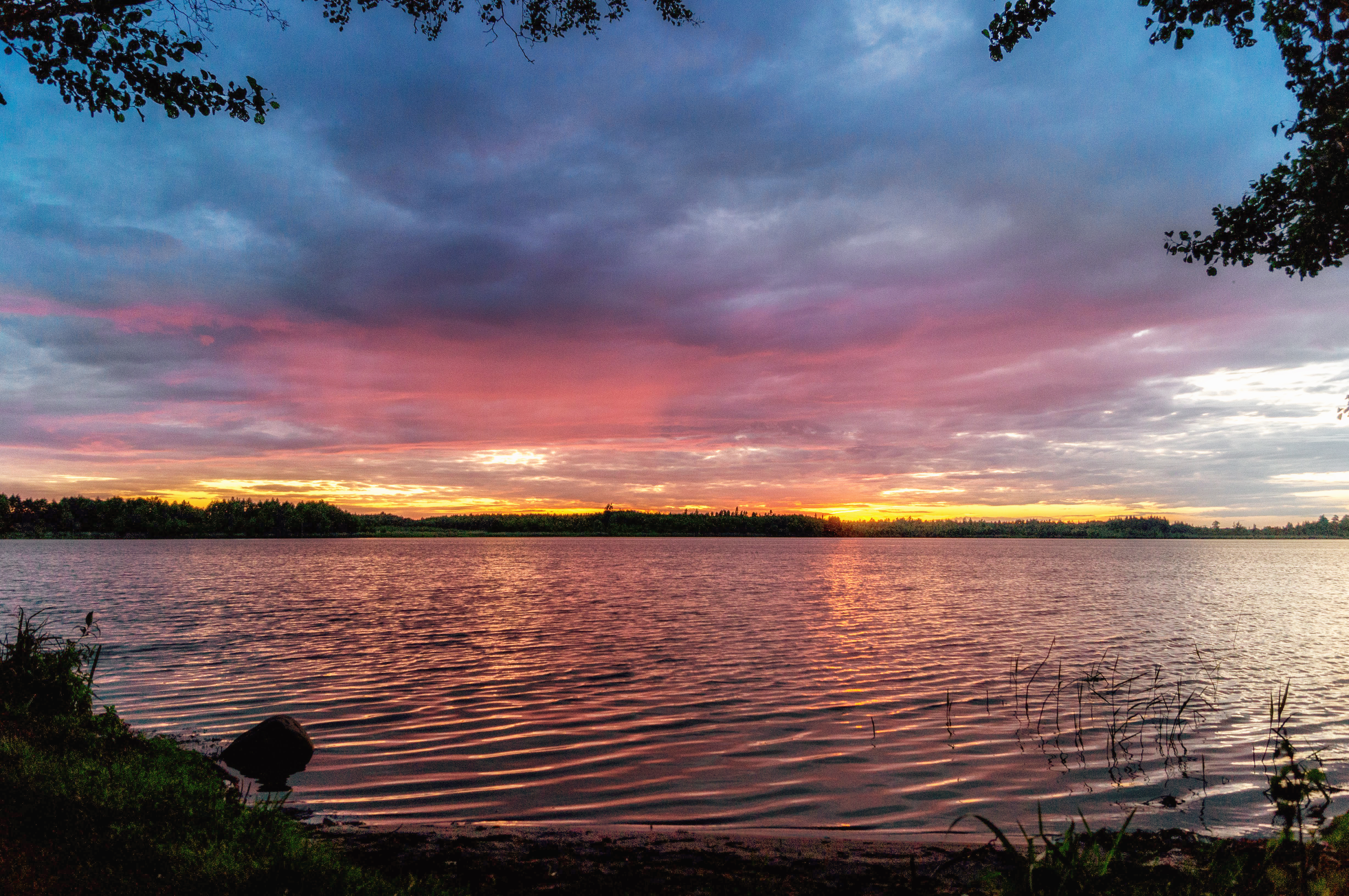 Lake Akuniouskae